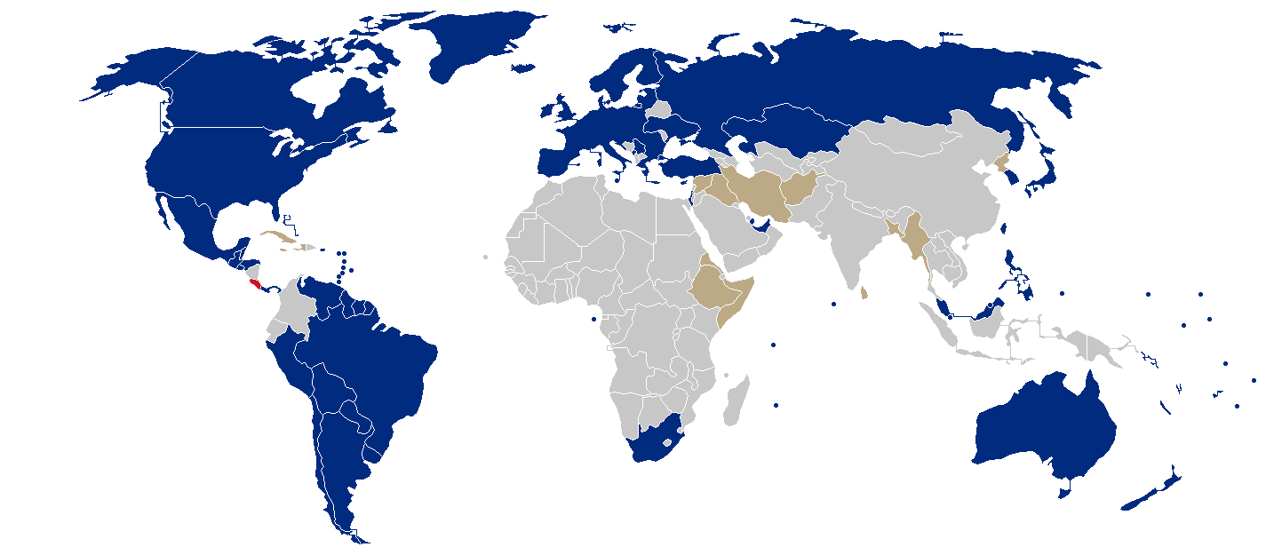 Visa policy of Costa Rica Costa Rica Visa not required Restricted visa